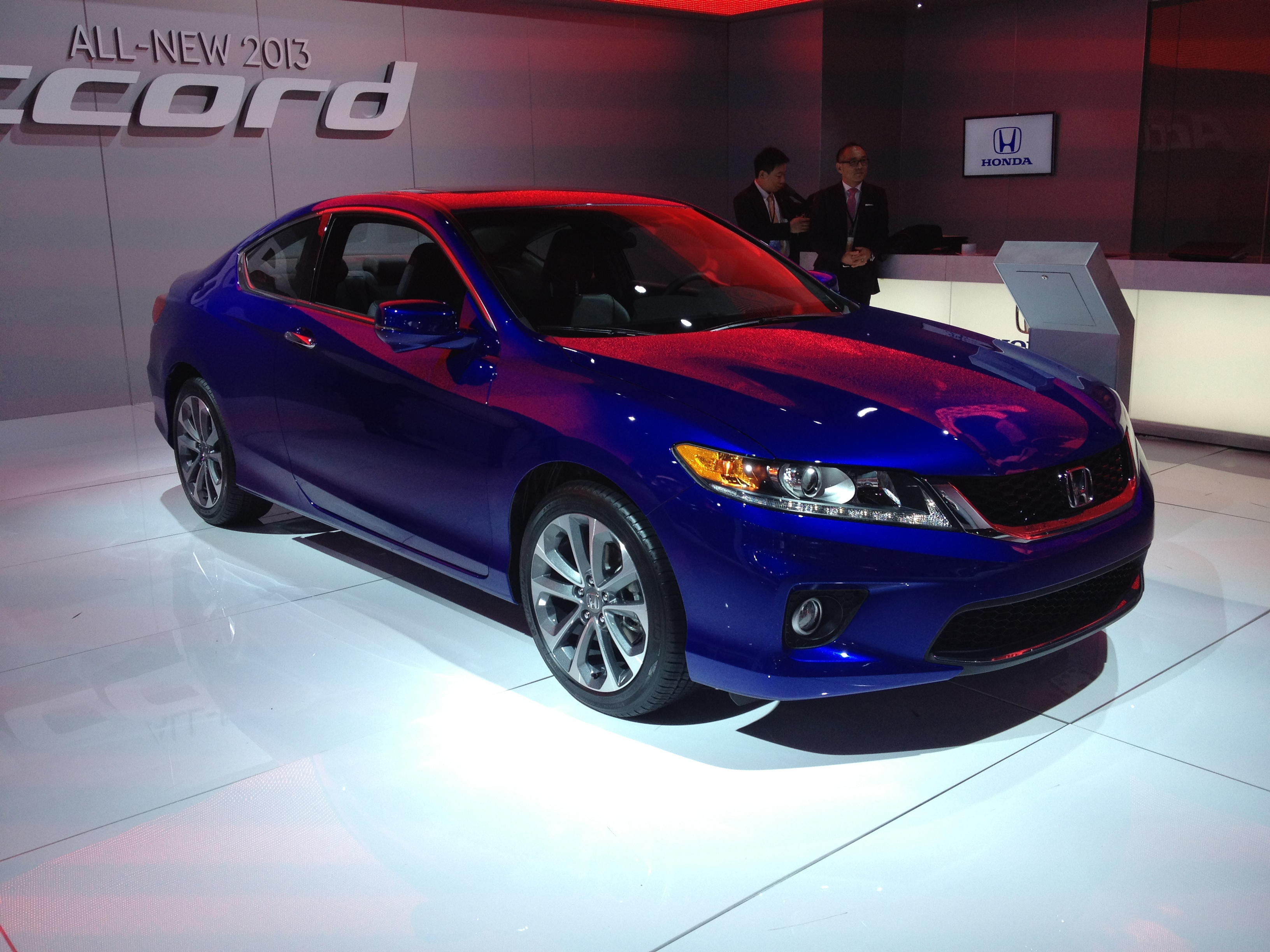 2013 North American International Auto Show Detroit, Michigan